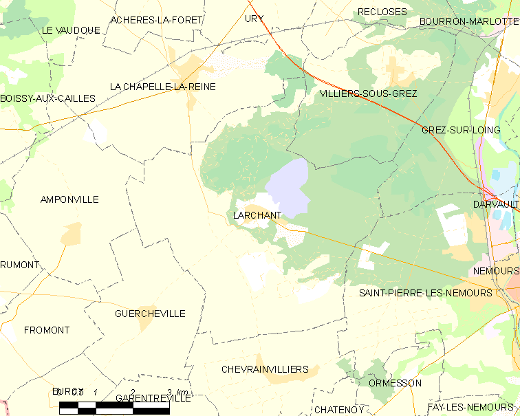 Map of French municipality Larchant